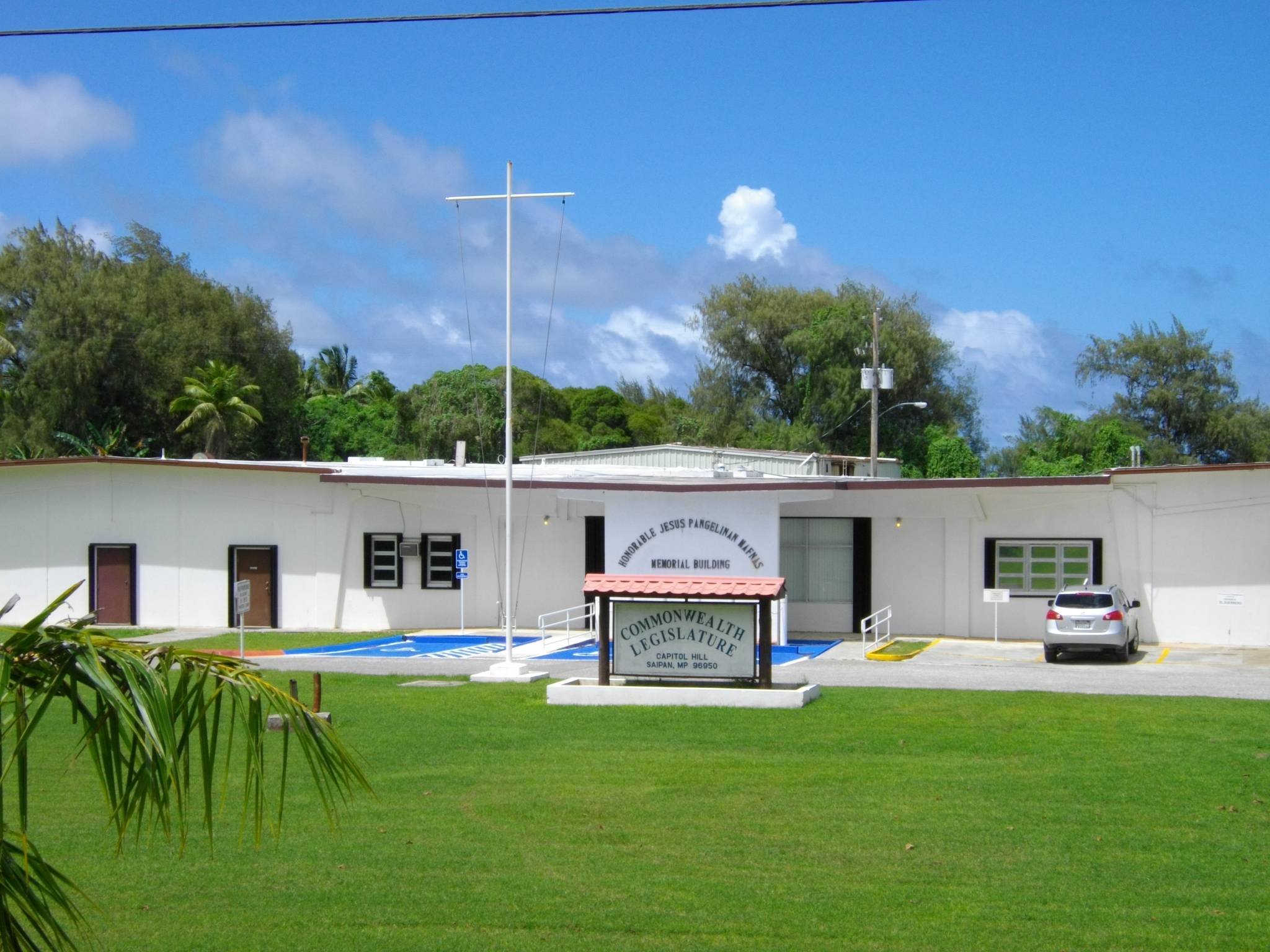 CNMI Legislature Building